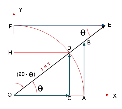 Trigonometry Acute Angle diagram.